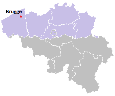 Location of Brugge (Bruges) in Flanders (Belgium) marked by a red dot